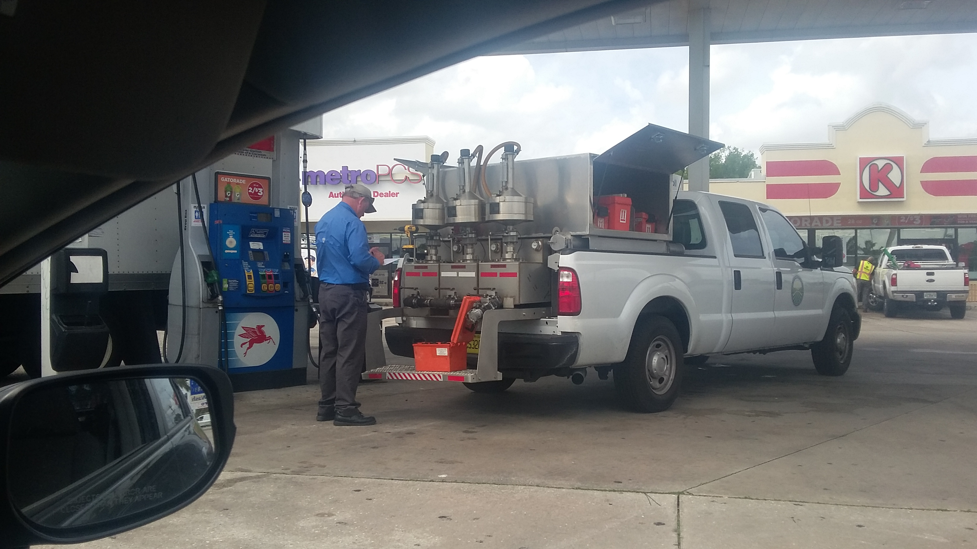 A state inspector visits a Mobil station in Port Charlotte, Florida to check the accuracy of the pumps and the quality of the fuel being sold.